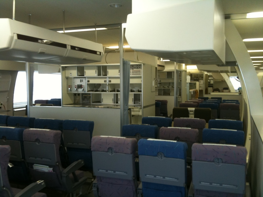 Cabin service training facility of Japan Airlines. At Tokyo International Airport.